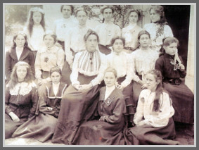 Edith Aitken with pupils in 1903. She was the British headmistress. She was the founding head at Pretoria High School for Girls which she retired from in 1923.